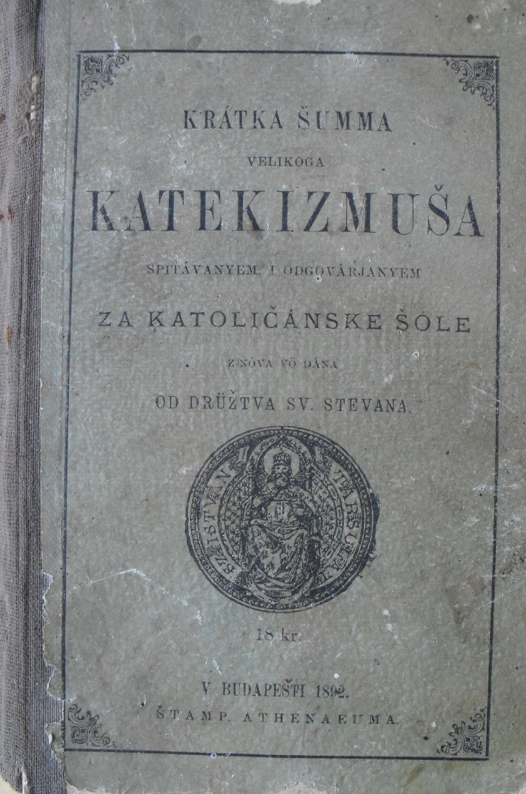 Krátka šumma velikoga katekizmuša (Small tenet of the Great Cathecism) of Miklós Küzmics from 1892. Chimney page. Sometime was the property of the Filip family in Beltinci